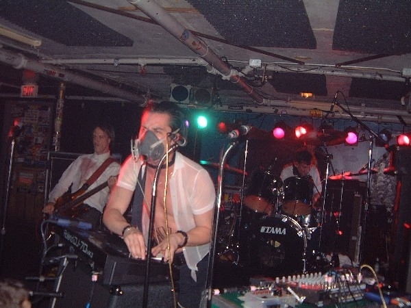 tomahawk